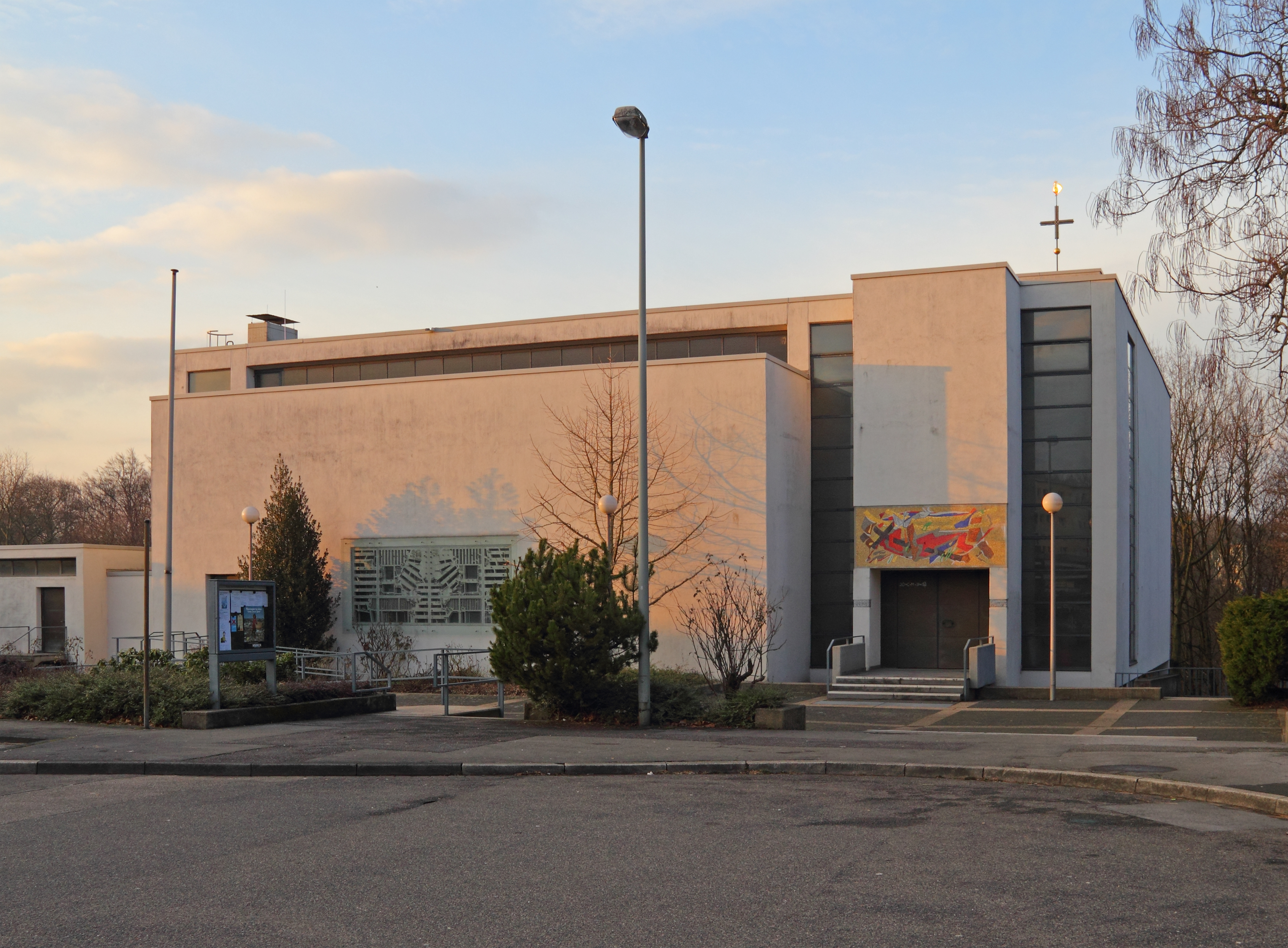 St. Matthias church in Leverkusen-Steinbüchel